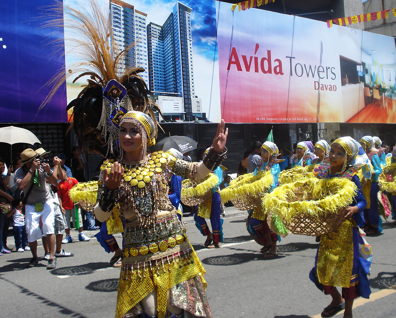 Street dancing competition, part of Kadayawan Festival celebration.